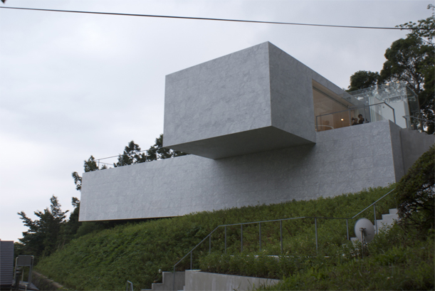 Cantilevered concrete building - Japan.